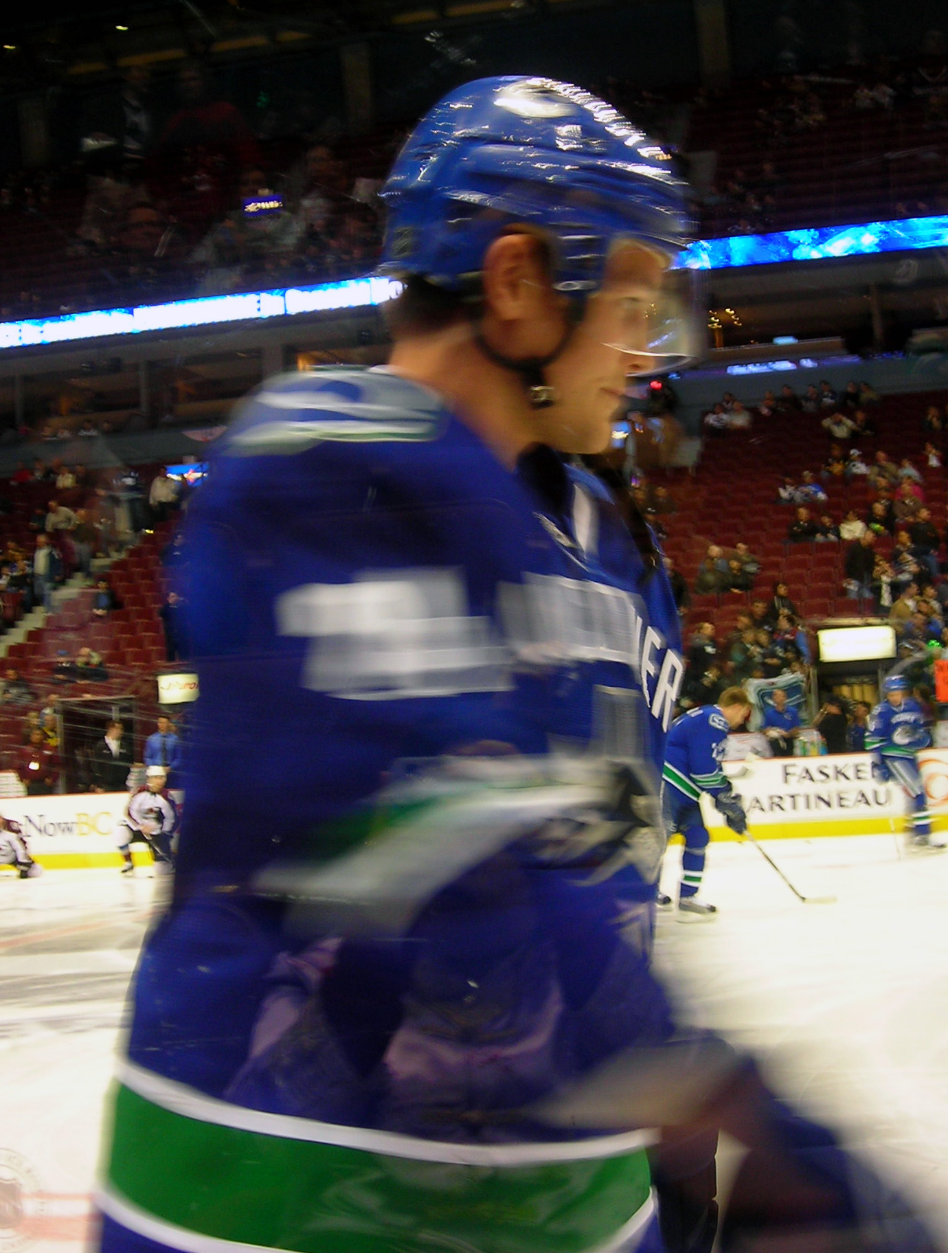 Vancouver Canucks forward Matt Cooke during a February 9, 2008, pre-game warmup against Colorado.